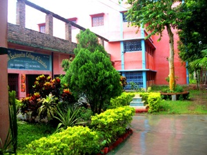 Shimurali cllg